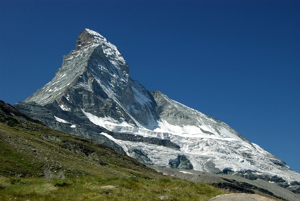 The Matterhorn